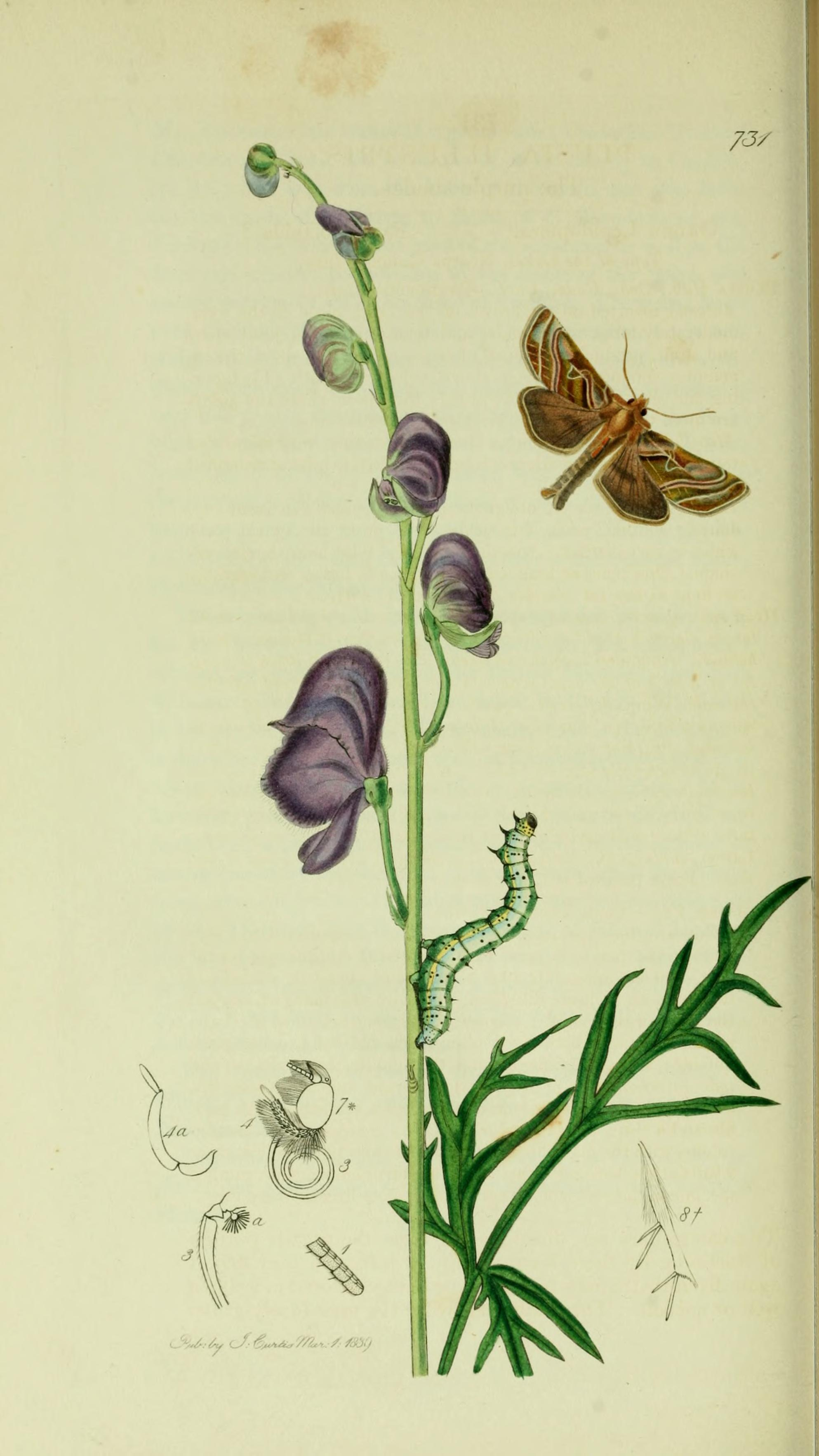 An illustration from British Entomology by John Curtis. Plusia illustris or Euchalcia variabilis (Purple Shades, Purple Shaded Gem).